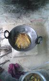 Fish Fry and Curry